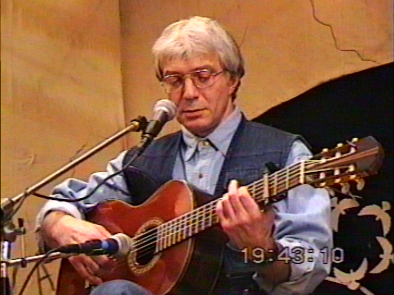 Alexander Mirzayan.